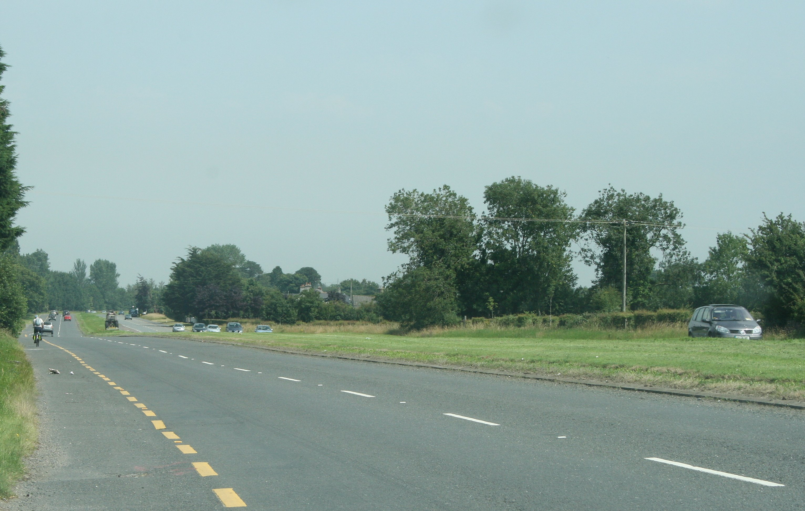 The R445 road which connects Naas and Newbridge in County Kildare, Ireland.